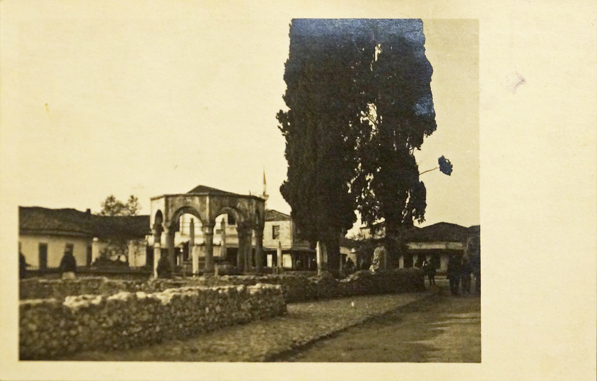 Austrian Postcard of Tirana, Albania from the First World War: Toptani Grave in Tirana